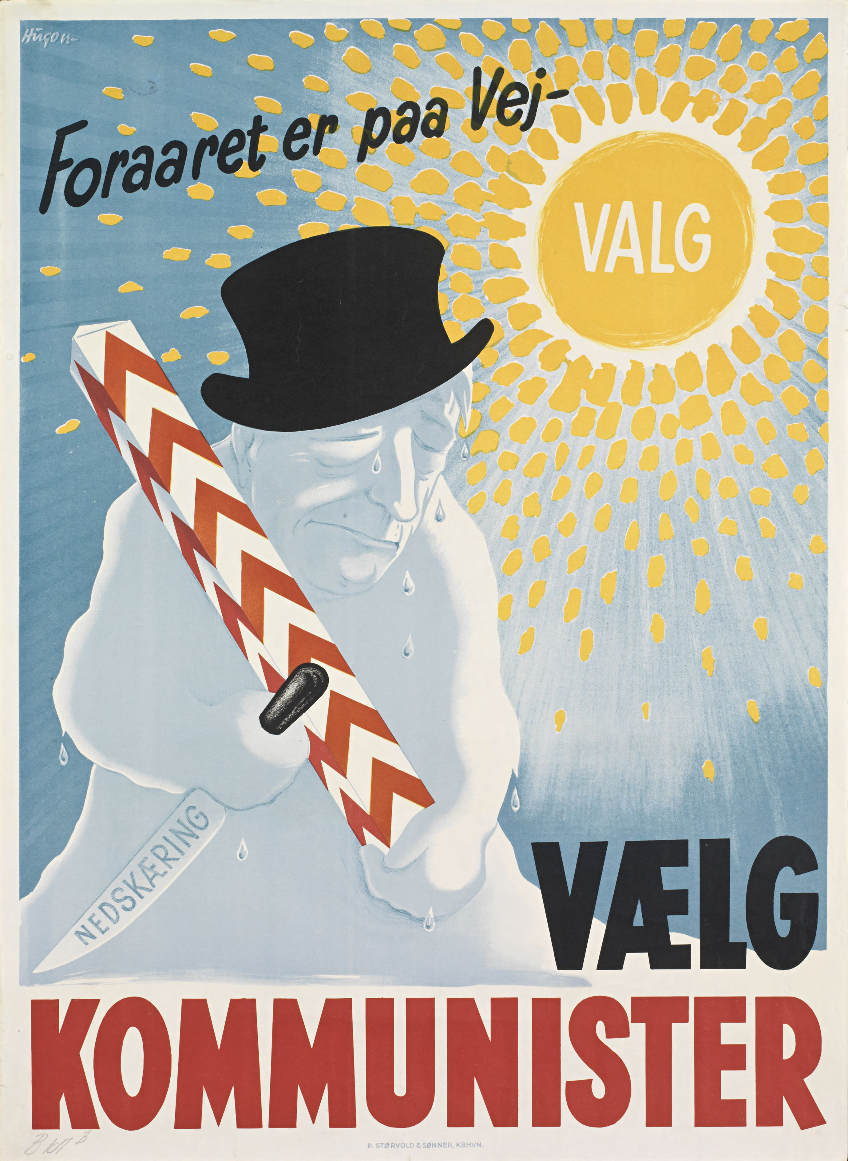 Danish Communist election poster. The melting snowman is the prime minister Knud Kristensen, whose government was brought down in 1947, mainly because of his diffuse attitudes to a border revision against Germany, symbolized by the border mark.